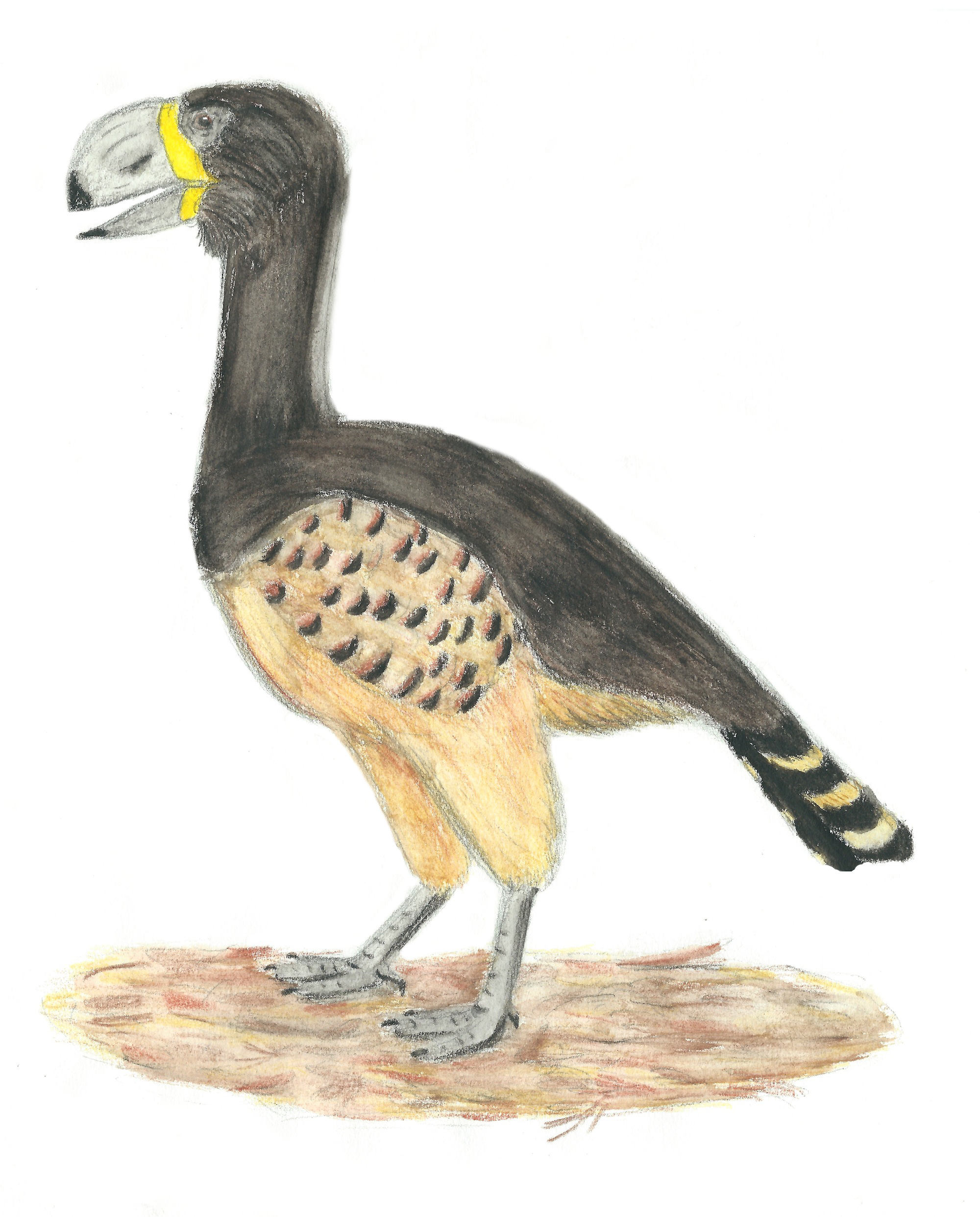 Life restoration of Gastornis giantea, a giant flightless bird from the Eocene of North America